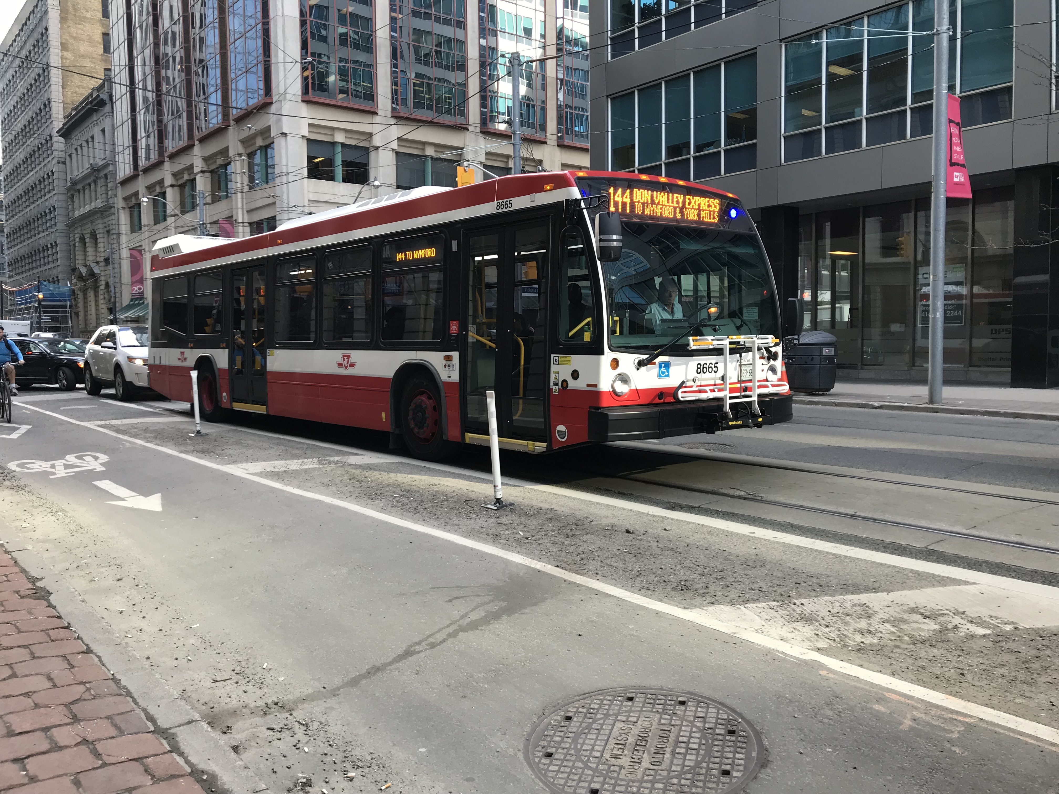 Toronto Transit Commission (TTC) bus 8665, Ontario license plate *63 *B, 144 to Wynford. Nova Bus LFS.